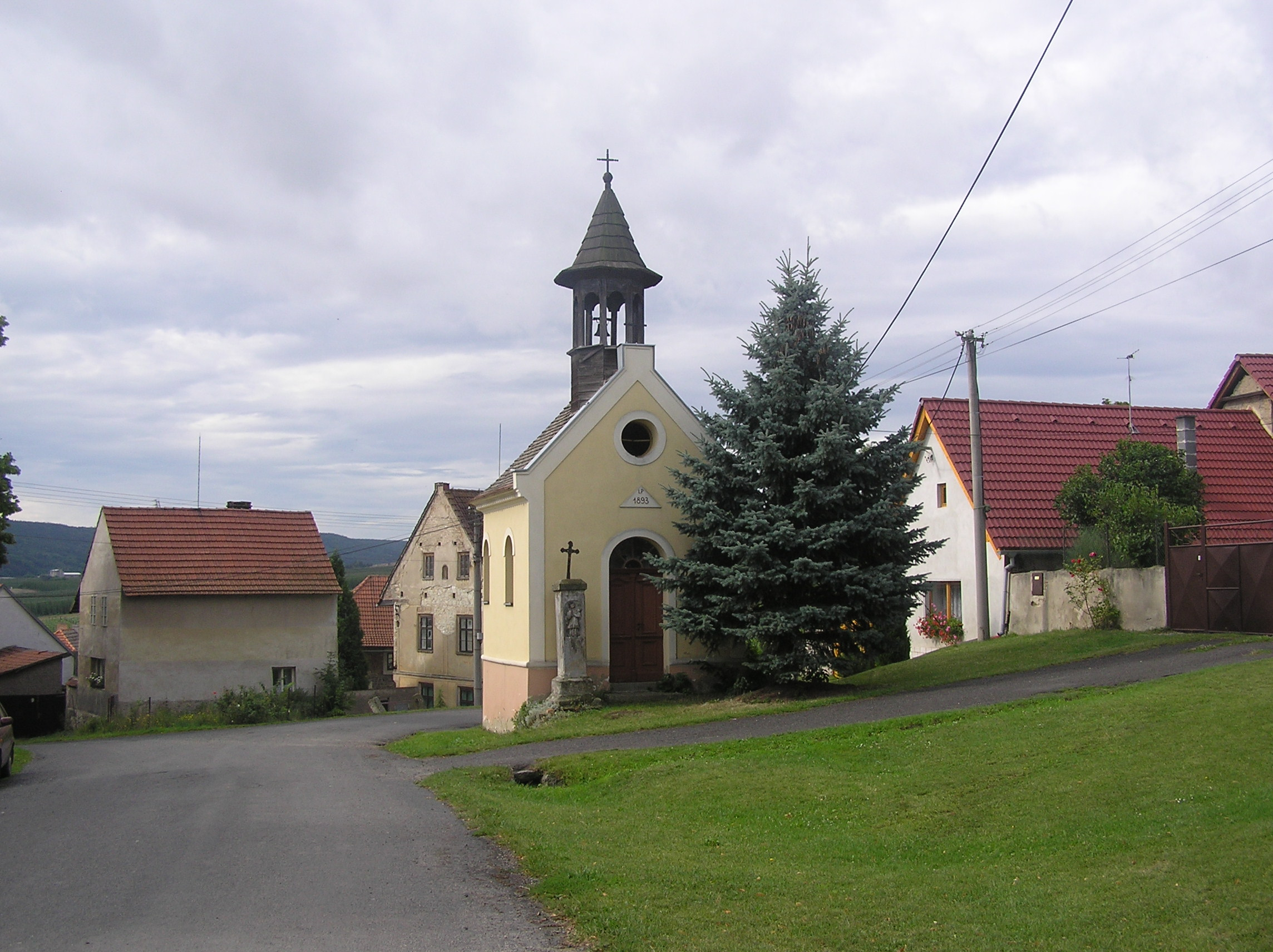 Chapel of St. Anna in Divice